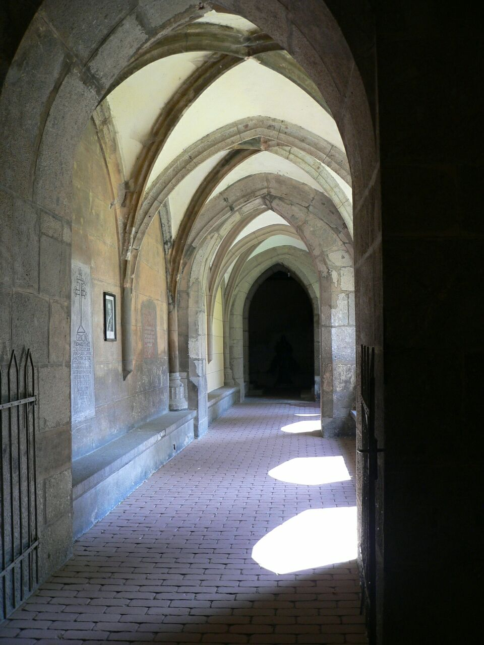 Cloister in former abbey in Hronský Beňadik Slovakia